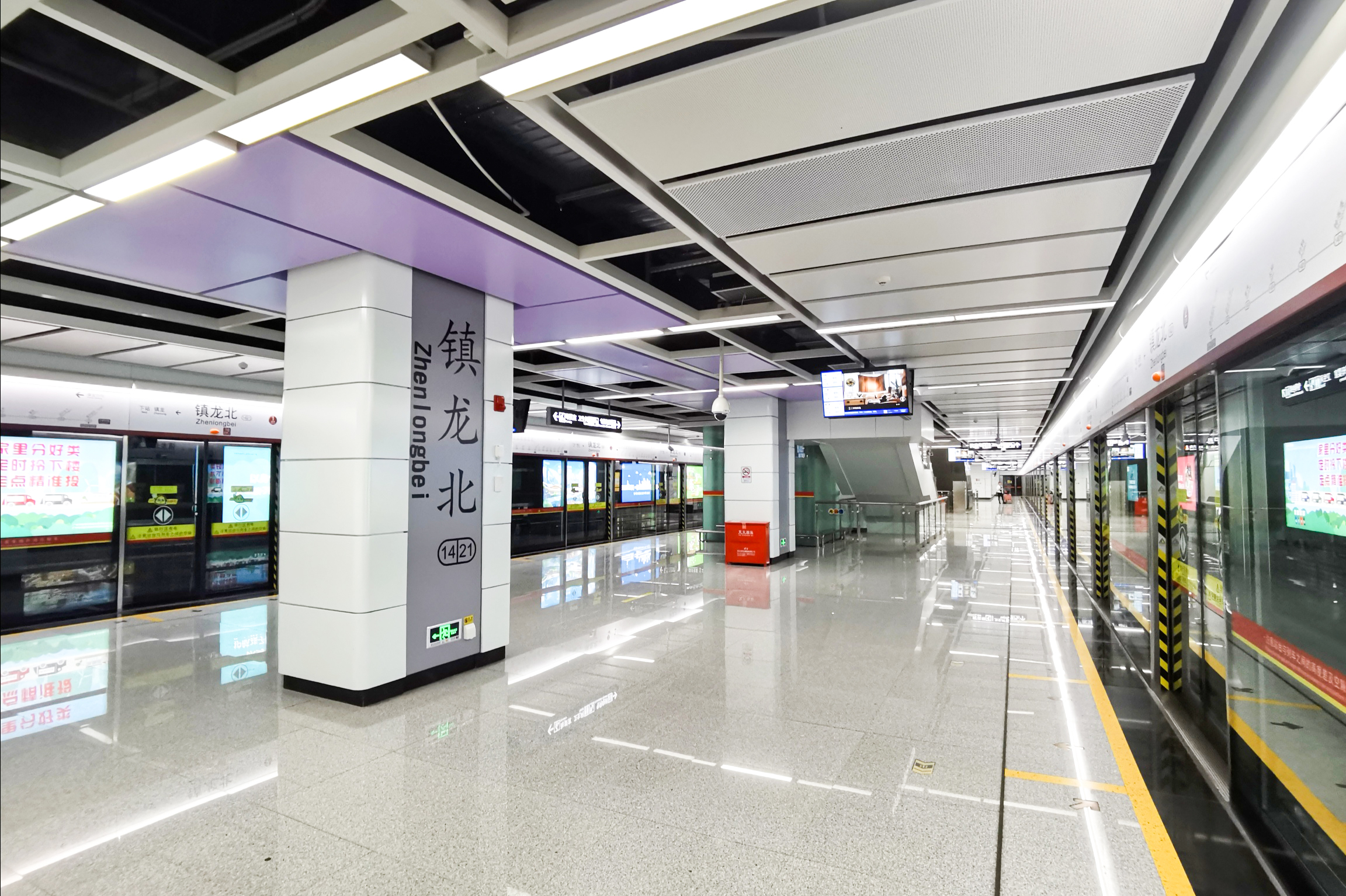 广州地铁镇龙北站